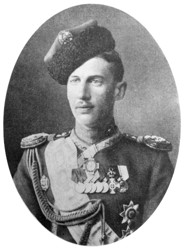 Ioann Konstantinovich of Russia